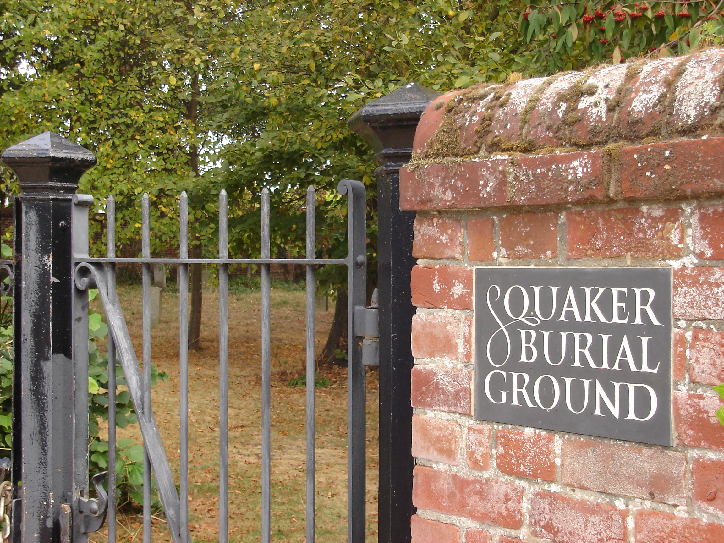 Picture of entrance to the Gildencroft Quaker Cemetery